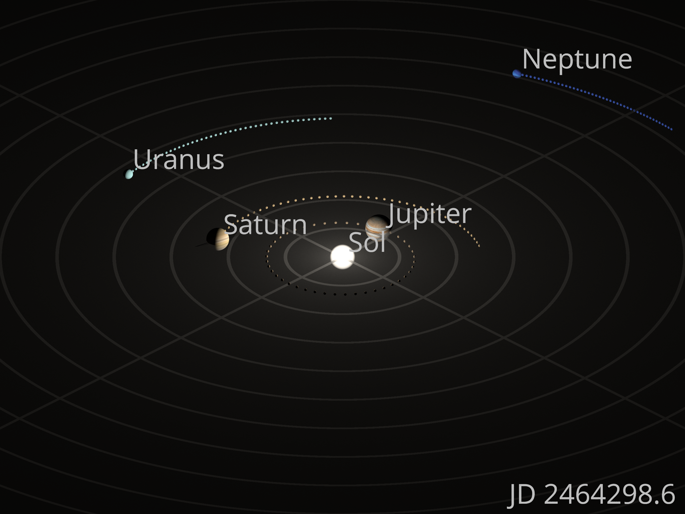 Orrery showing the motions of the outer four planets of our solar system starting on A.D. 2023 Jan 21 (Jupiter perihelion) and ending on A.D. 2034 Dec 02 (Jupiter perihelion). Each small sphere represents the distance traveled in 100 Julian days. Distances are to scale. Objects are not. The flat circular rings are spaced 4 AU apart.